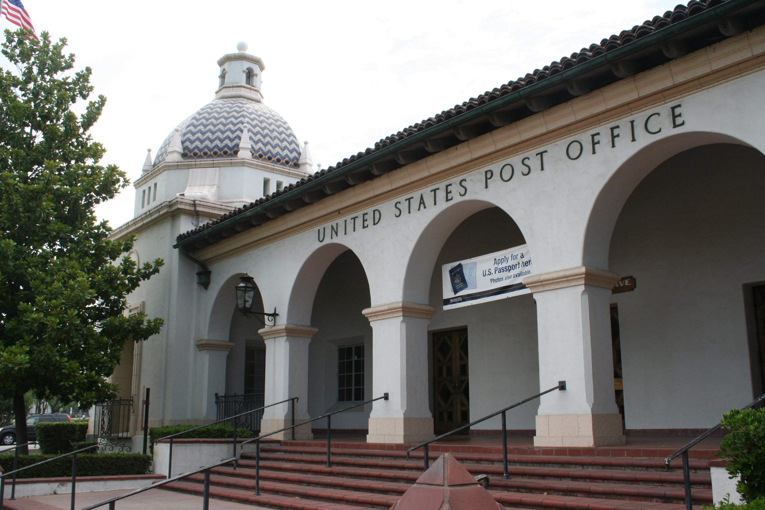 The Historic Redlands Post Office - Redlands in San Bernardino County, California. Built in the 1930s in the Spanish Colonial Revival style. National Register of Historic Places in San Bernardino County, California.